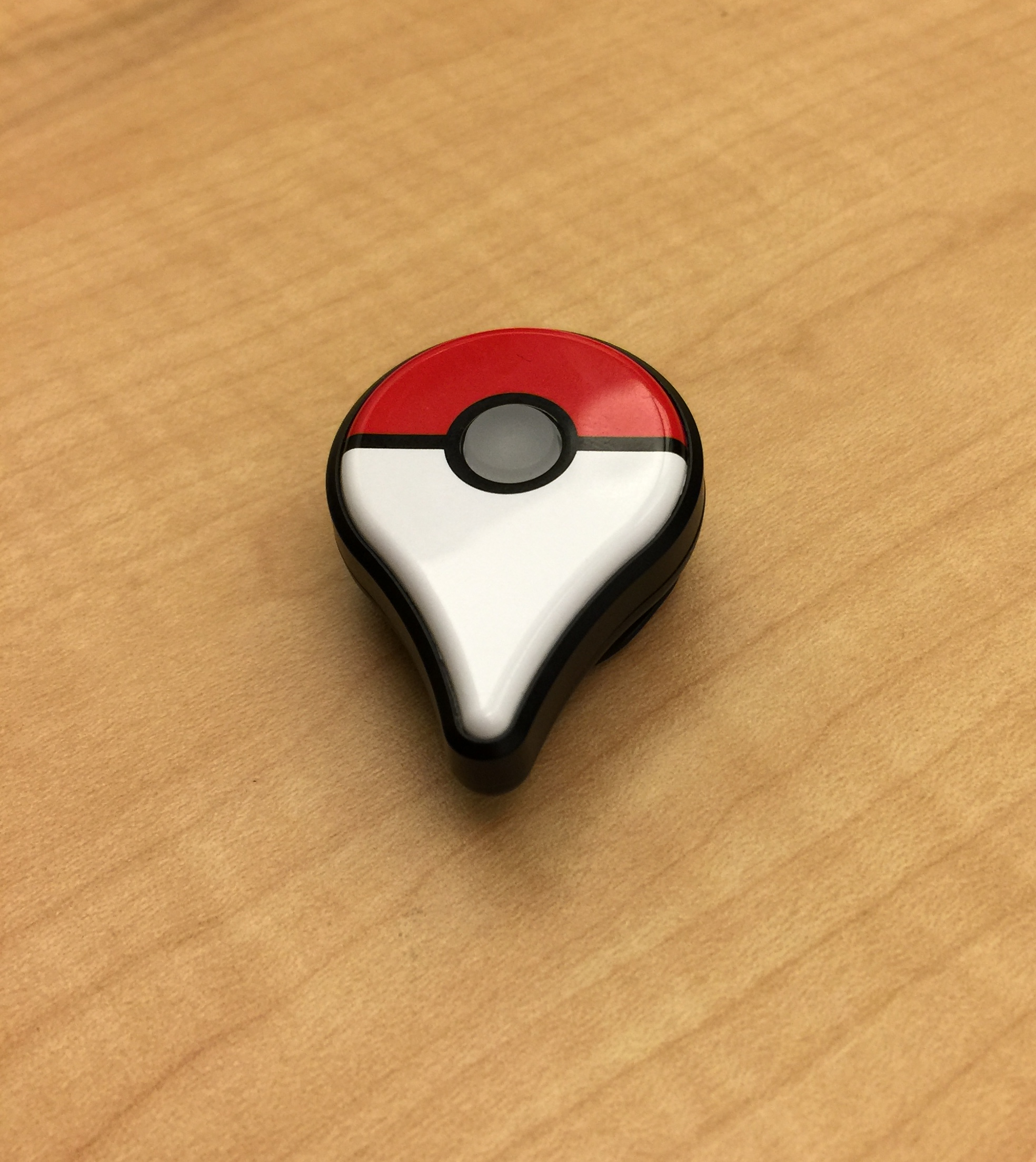 The Pokémon Go Plus wearable device.